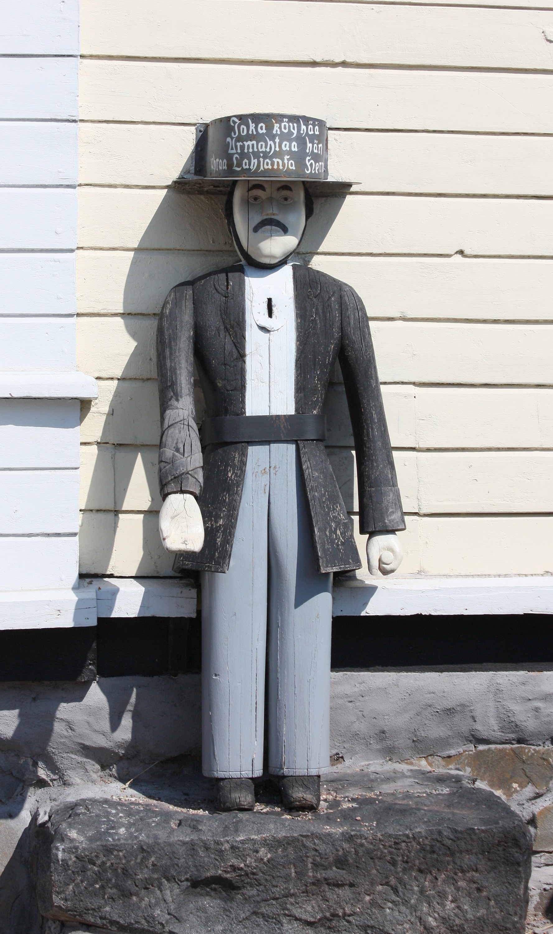 The wooden "poorboy" offertory box by the belfry of Haukipudas Church.